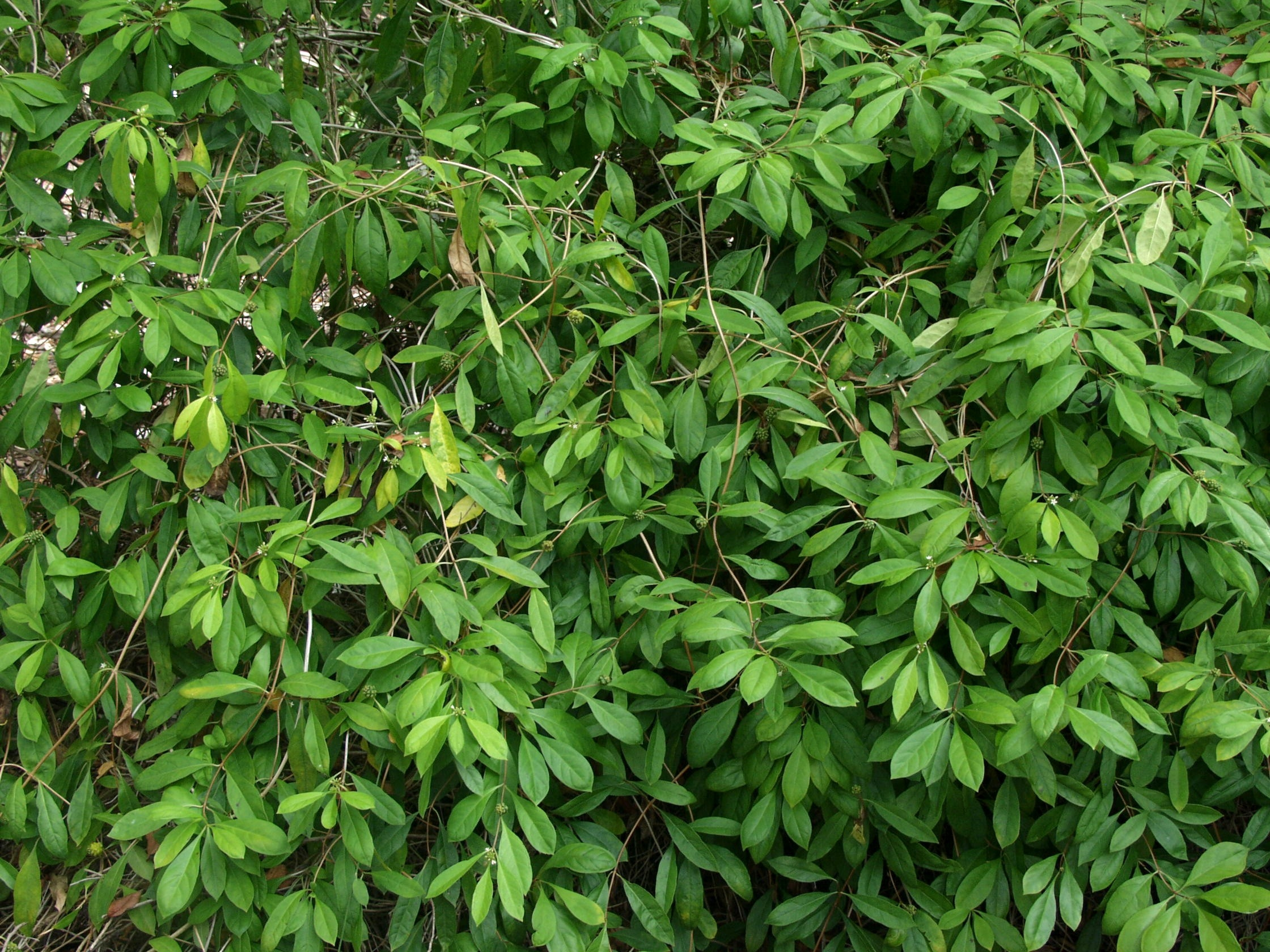 Morinda royoc